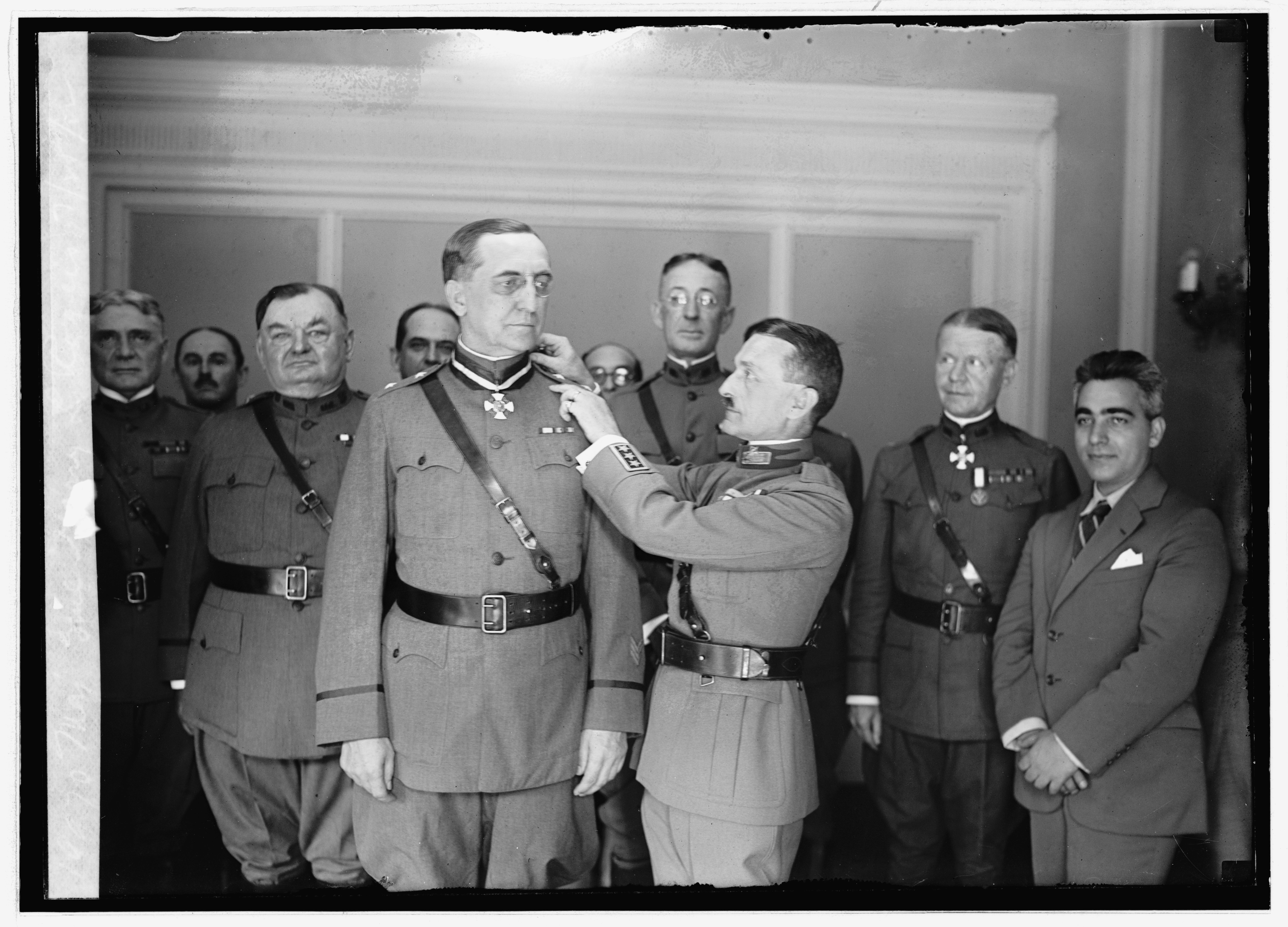 Title: Maj. Gnl. Harry L. Rogers, 7/25/22 Abstract/medium: 1 negative : glass ; 5 x 7 in. or smaller